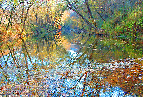 Kentucky's Red River during an autumn drought.